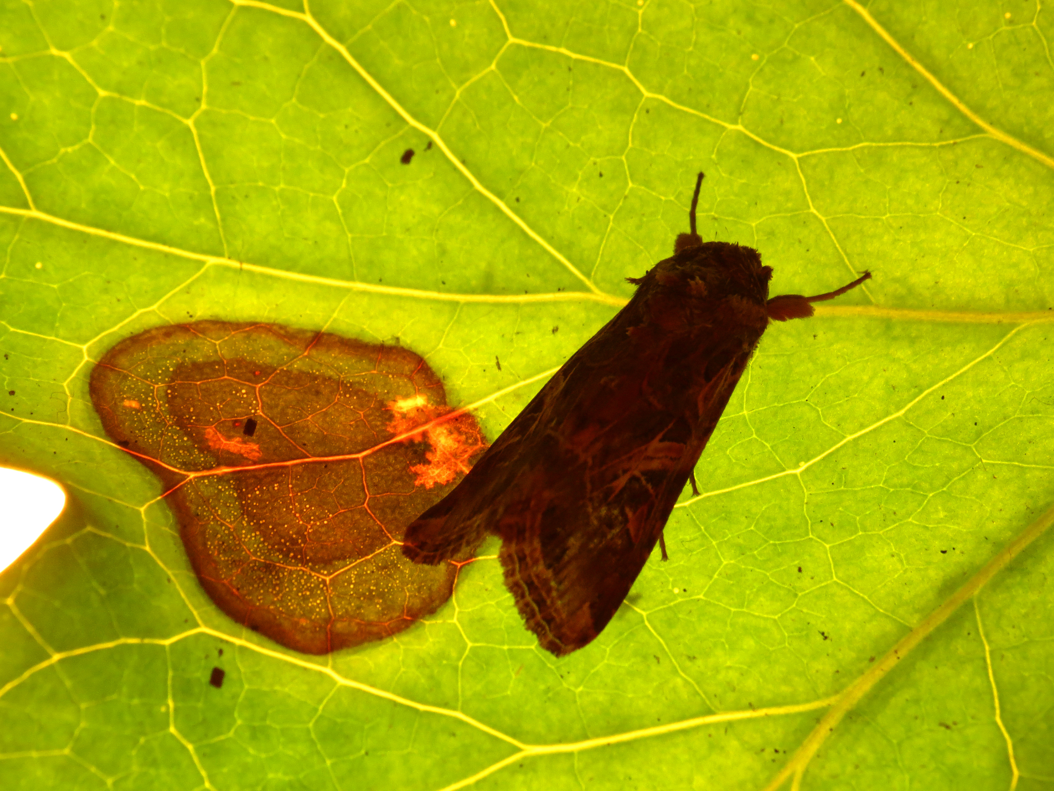 Spodoptera littoralis. Sitting on an English Ivy leave on top of my sister's porch light. Els Poblets, Alicante, Spain.